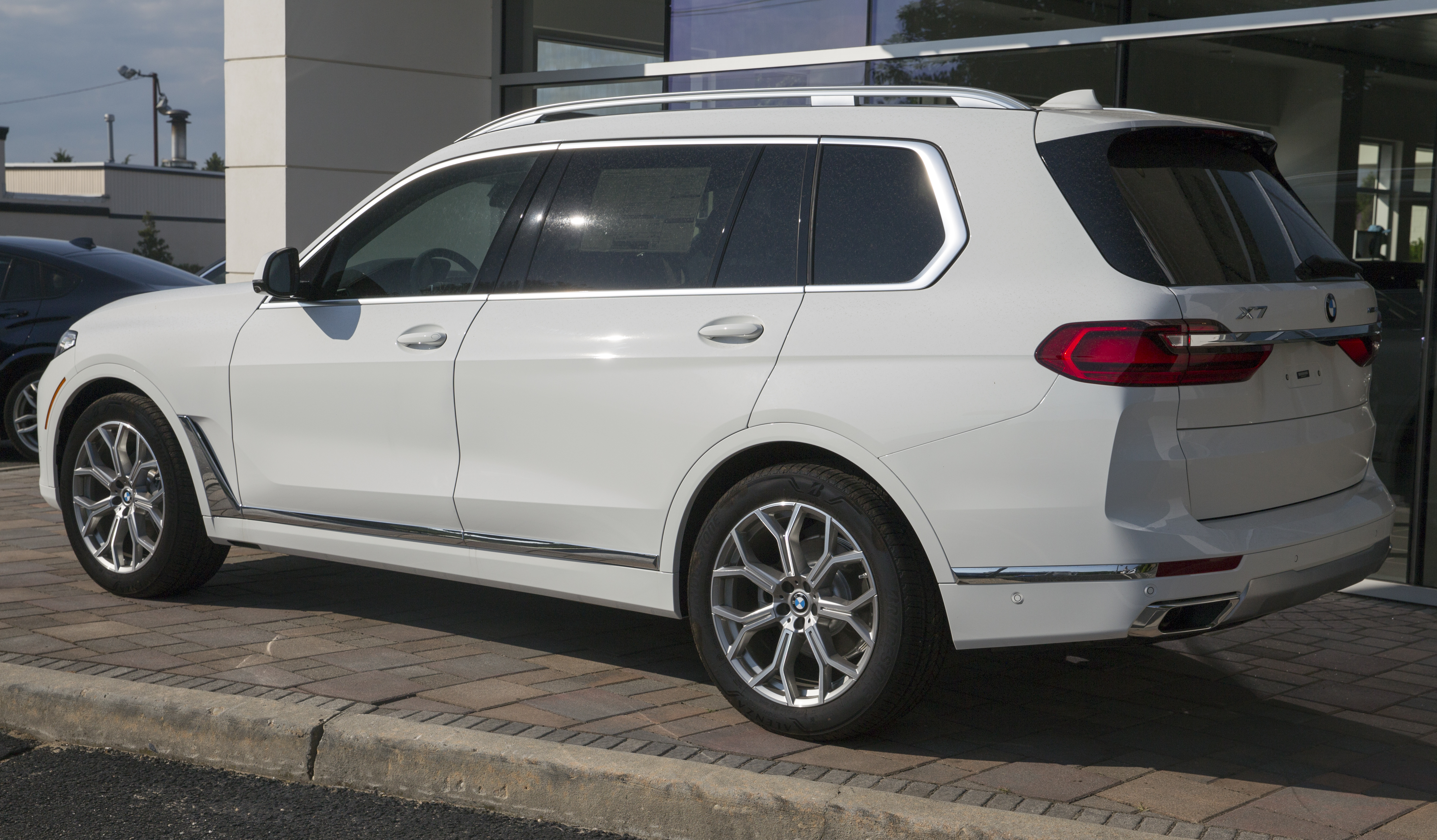 2019 BMW X7 xDrive40i. Gag me with a spork, please.